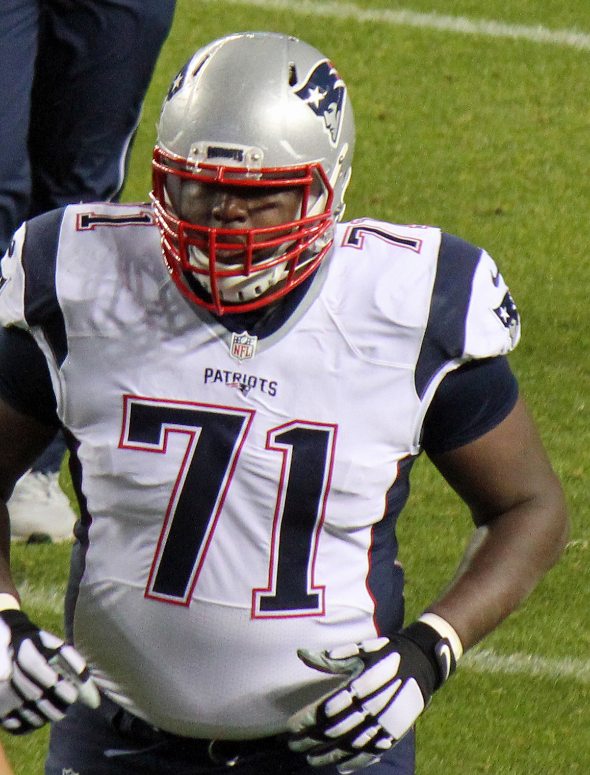 Cameron Fleming, a player on the National Football League.